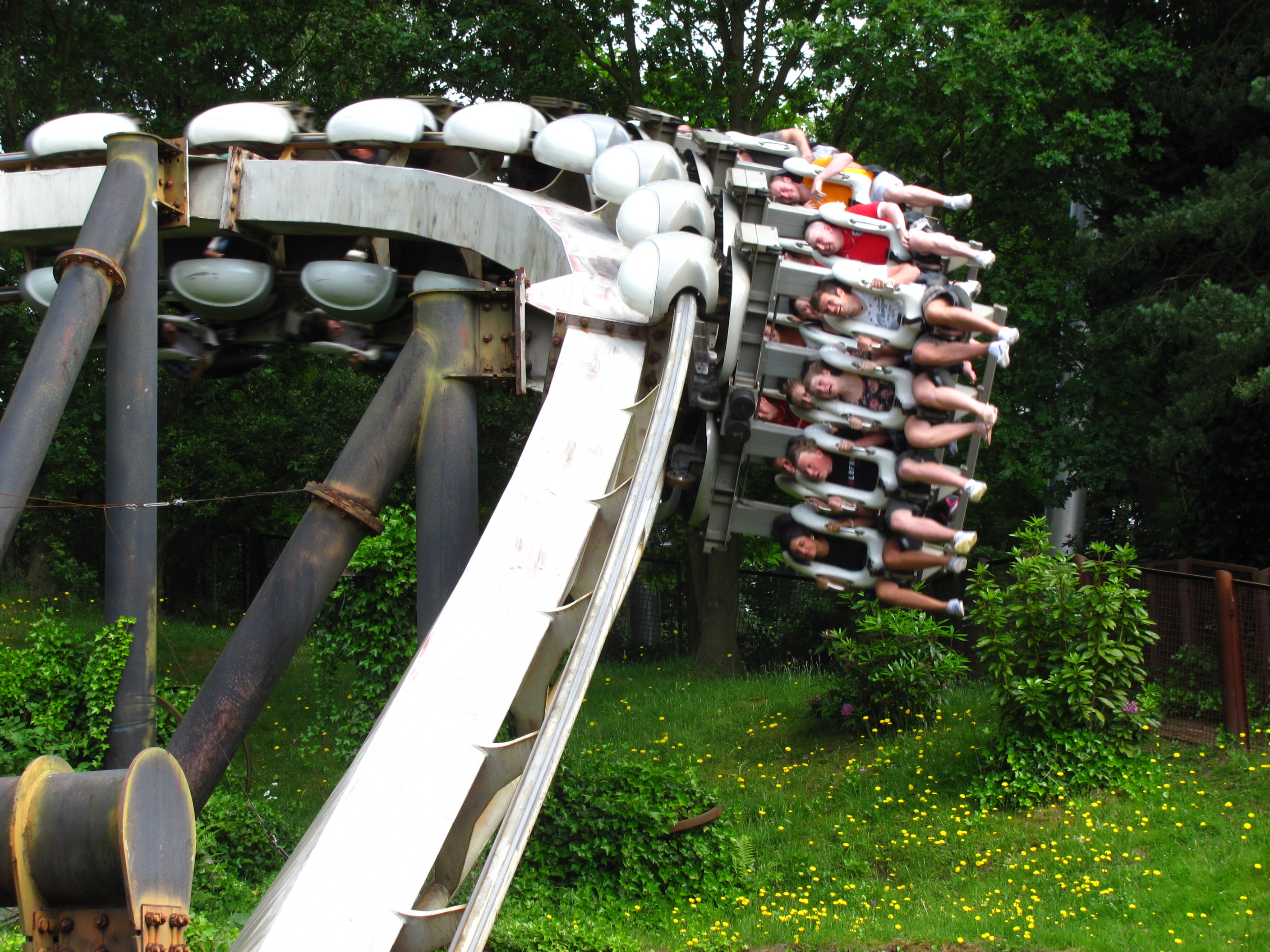 Alton Towers 240